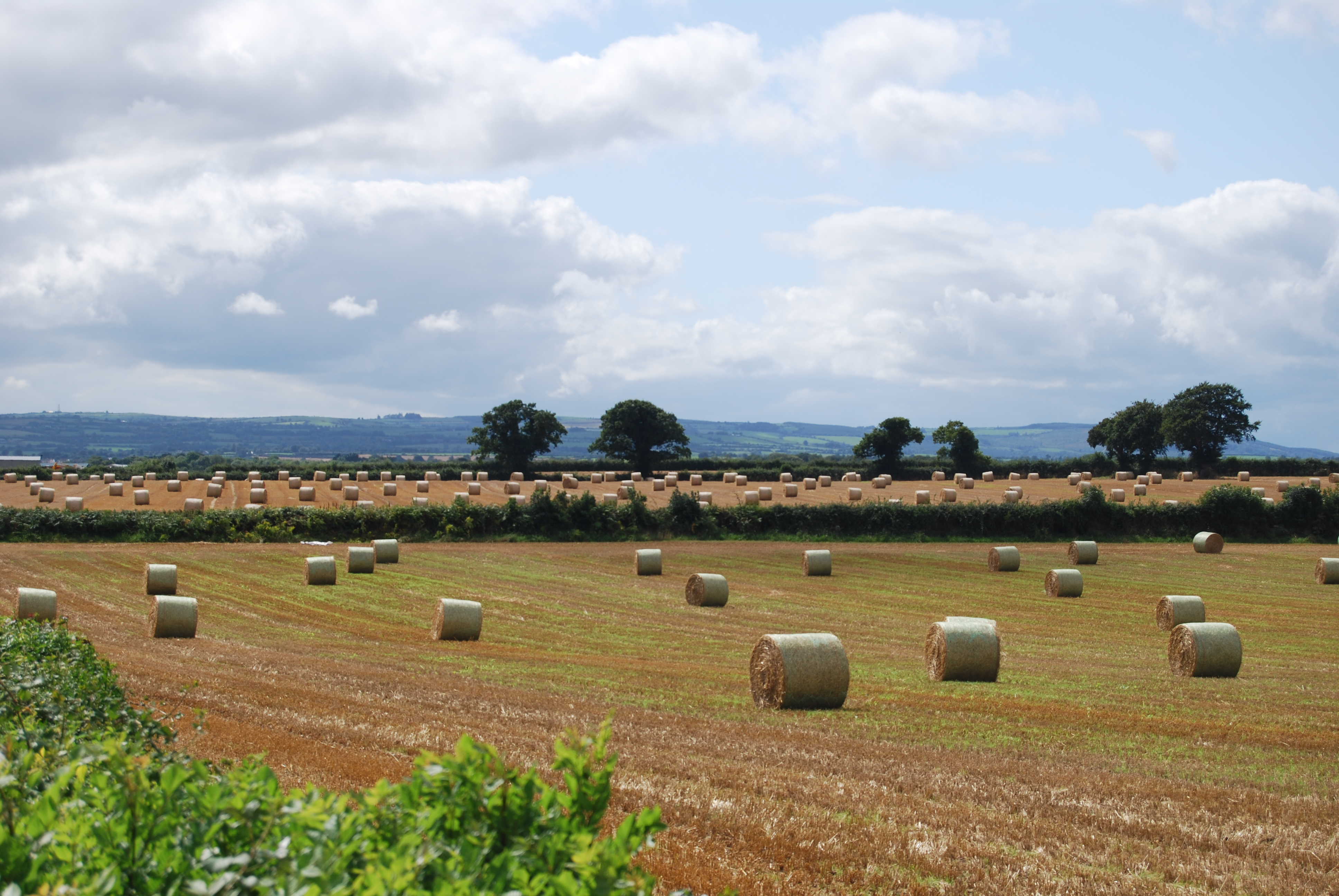 Field of straw bales in White Bog, Co Laois.